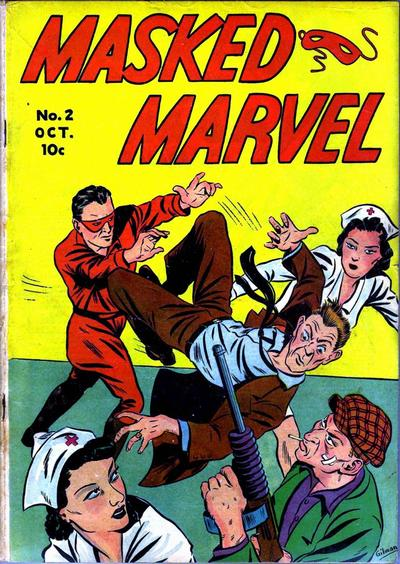 Artwork from the cover of Centaur Publications Masked Marvel #2.